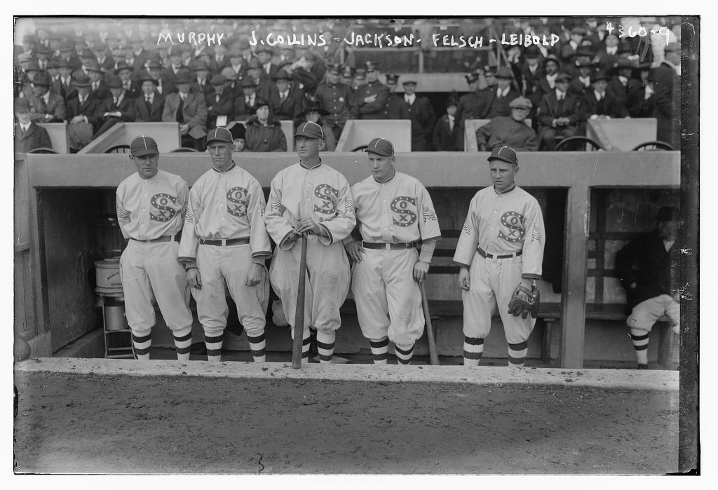 Bain News Service, publisher. [Eddie Murphy, John "Shano" Collins, Joe Jackson, Happy Felsch, and Nemo Leibold, Chicago AL at 1917 World Series (baseball)] [1917] 1 negative : glass ; 5 x 7 in. or smaller. Notes: Original data provided by the Bain News Service on the negatives or caption cards: Murphy, J. Collins, Jackson, Felsch, Leibold. Corrected title and date based on research by the Pictorial History Committee, Society for American Baseball Research, 2006. Forms part of: George Grantham Bain Collection (Library of Congress). Format: Glass negatives. Repository: Library of Congress, Prints and Photographs Division, Washington, D.C. 20540 USA, General information about the Bain Collection is available at Higher resolution image is available (Persistent URL): Call Number: LC-B2- 4360-9